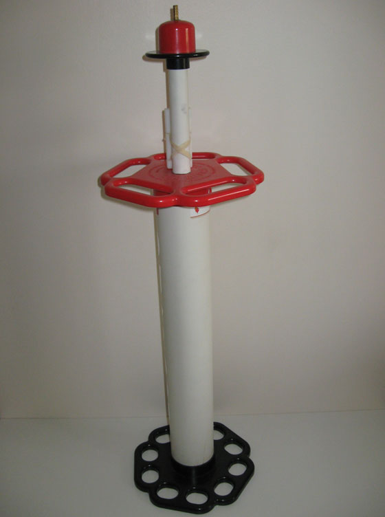 Big Balloon Pump